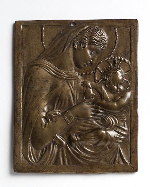 Virgin and Child plaquette, Donatello V&A Museum no. A.97474-1861 Techniques - bronze Plaquette, bronze, The Virgin and Child, after Donatello, Italy (Florence), mid 15th century Dimensions - Height: 11.6 cm Width: 9.4 cm Depth: 0.4 cm